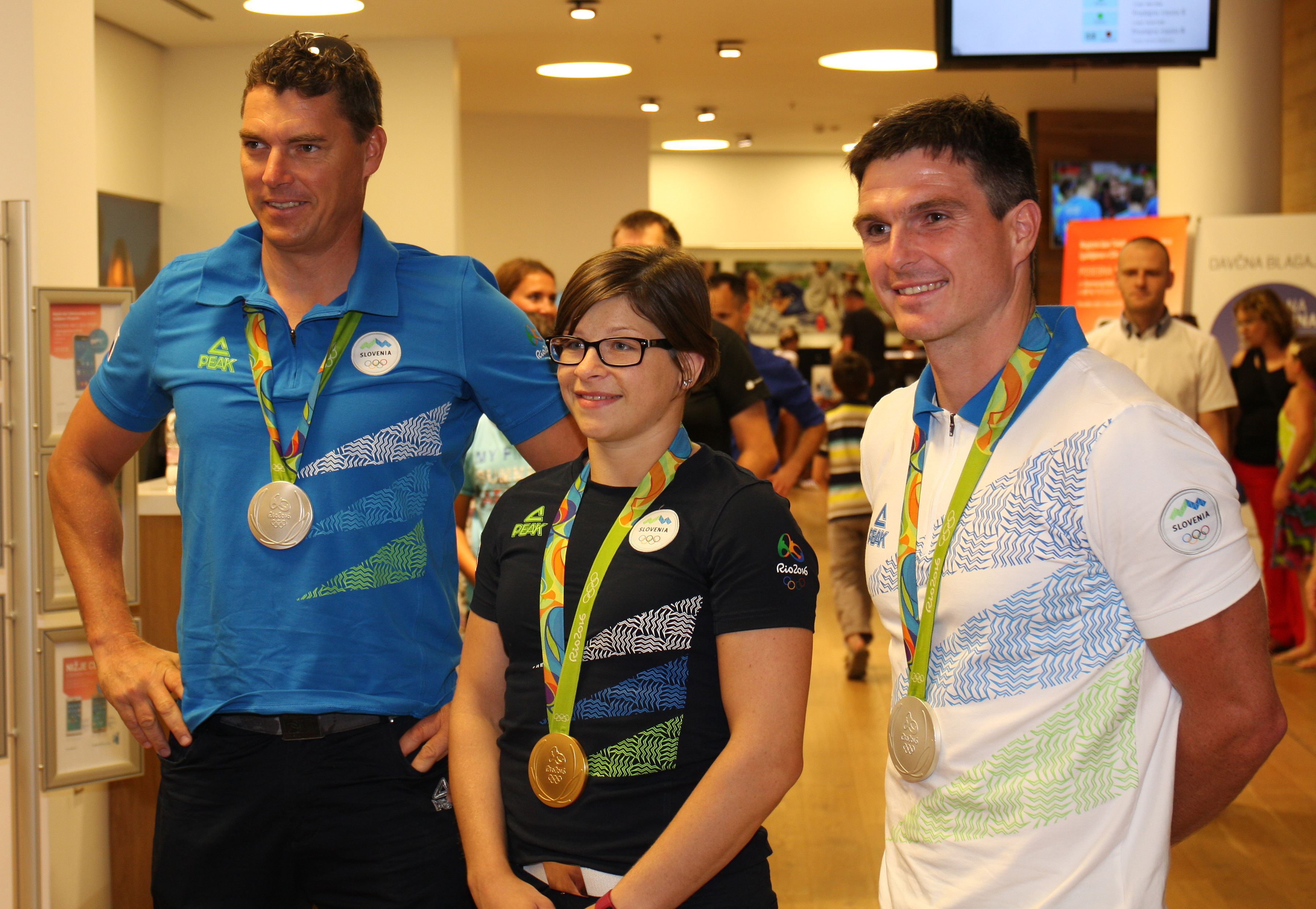 Recipients of the 2016 Summer Olympics medals for Slovenia at a promotional event in Ljubljana. From left to right: Vasilij Žbogar (silver), Tina Trstenjak (gold) and Peter Kauzer (silver). Anamari Velenšek (bronze) was absent.